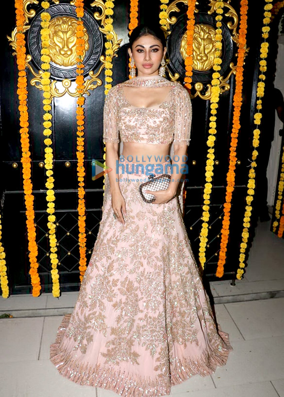 Mouni Roy grace Ekta Kapoor’s Diwali bash